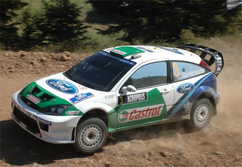 Toni Gardemeister driving a Ford Focus WRC at the 2005 Acropolis Rally.